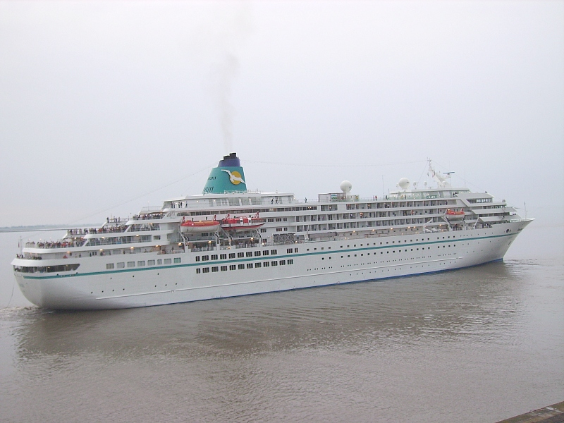 The cruise ship "Amadea" on the river Weser after departure from Bremerhaven, Germany IMO Number: 8913162 MMSI Number: 308445000 Callsign: C6VE9 Length: 193 m Beam: 28 m FORMER NAMES since 2006 Mar 03 ASUKA